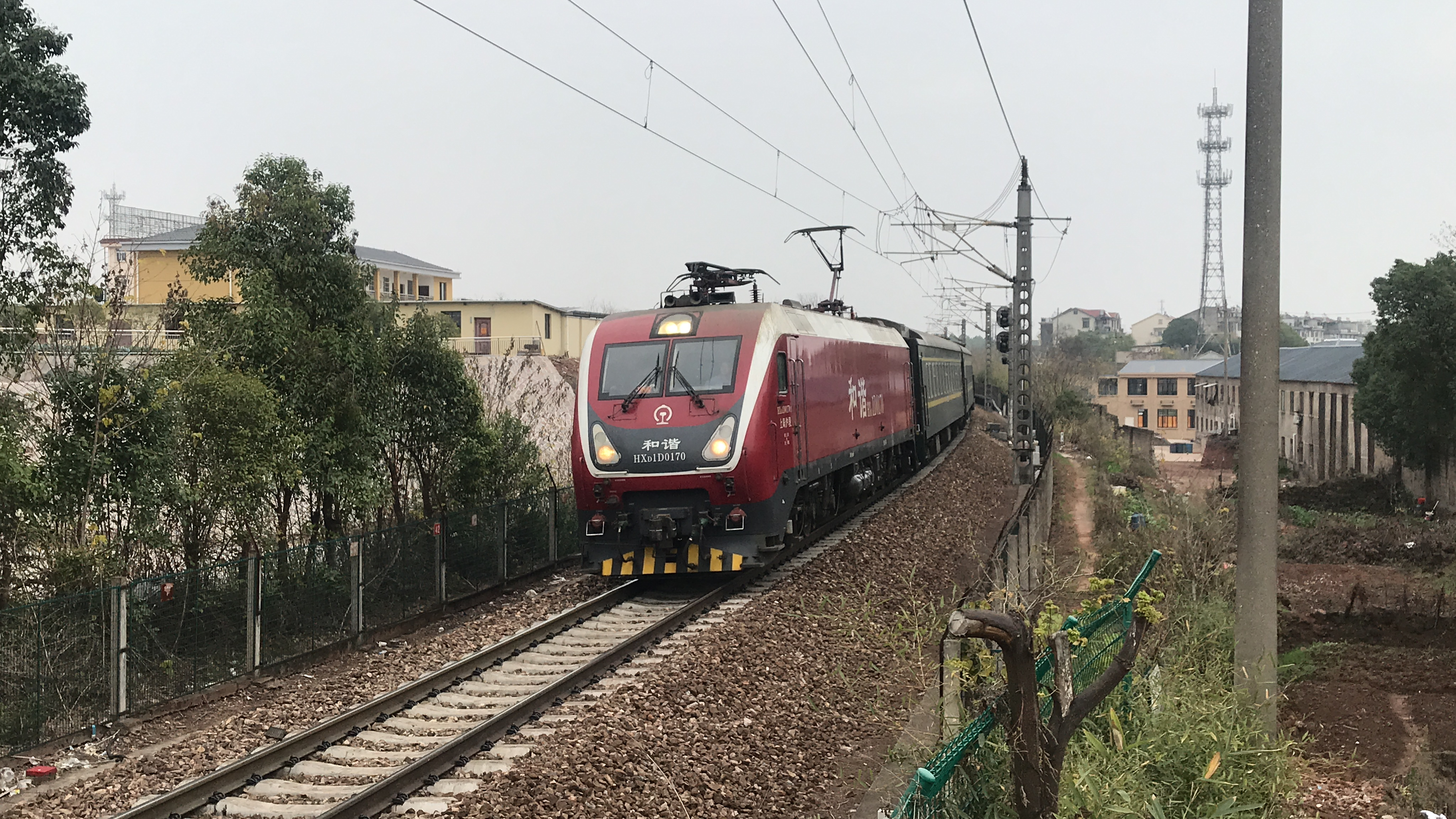 The first outbound long-distance train in the morning...before this train there are K8371 and several CR200Js